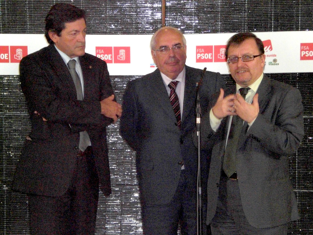 Monitoring Committee of the Government Pact, signed by FSA-PSOE and IU-BA-Verdes on March 4, 2010.